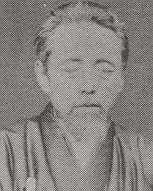 Yamamoto Kakuma, an Aizu samurai and 2nd president of Doshisha University 会津藩士山本覚馬